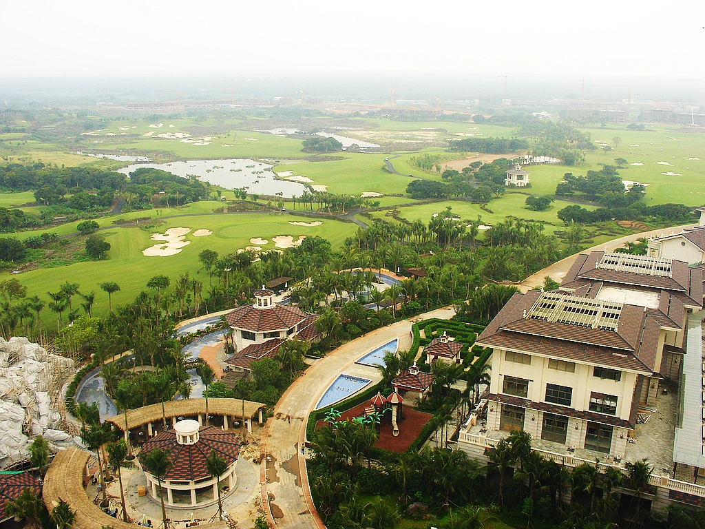 Mission Hills Haikou, Hainan, China. A landscape view from a hotel window.